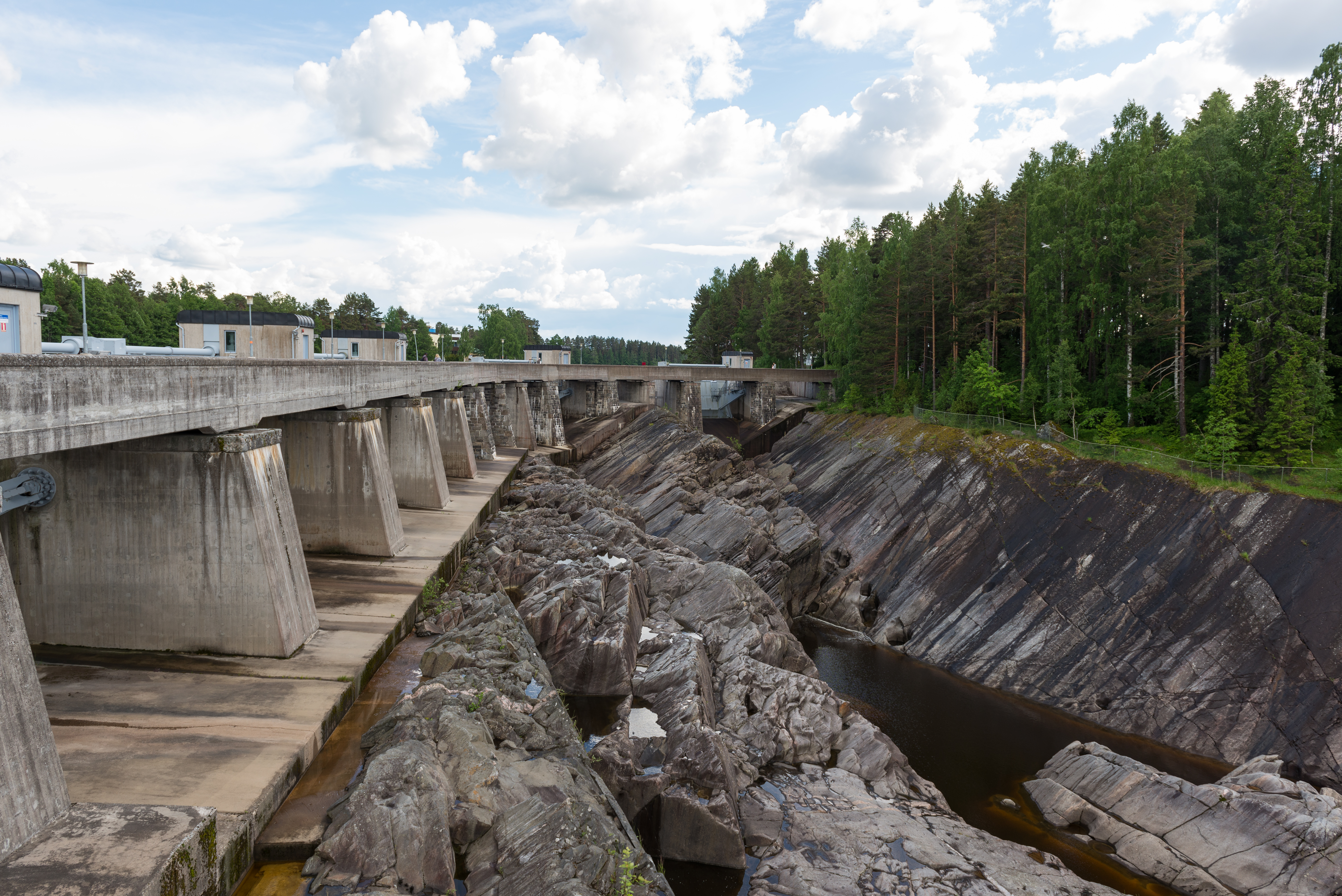 Älvkarleby hydroelectric power plant.